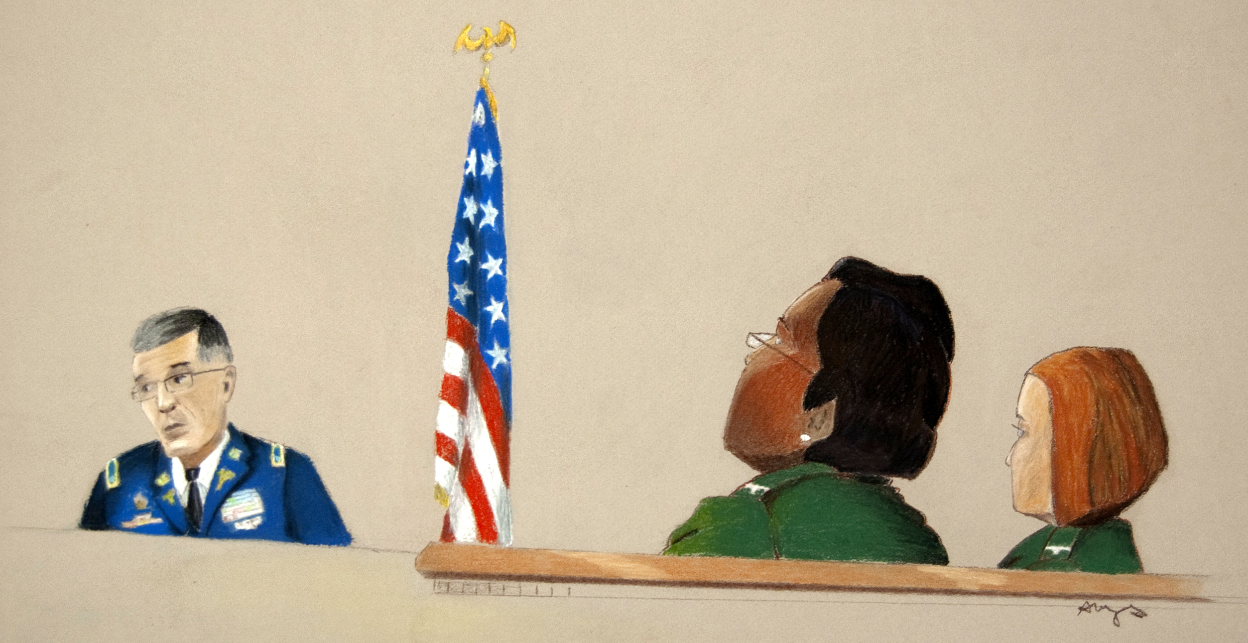 "An illustration depicts Lt. Col. Terrence Lakin, left, with jury members during his court-martial Dec. 15, at Fort Meade, Md." Cropped to remove blank spacing, and colour-/contrast-enhanced.